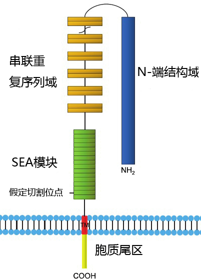 The Role of MUC16 Mucin (CA125) in the Pathogenesis of Ovarian Cancer.